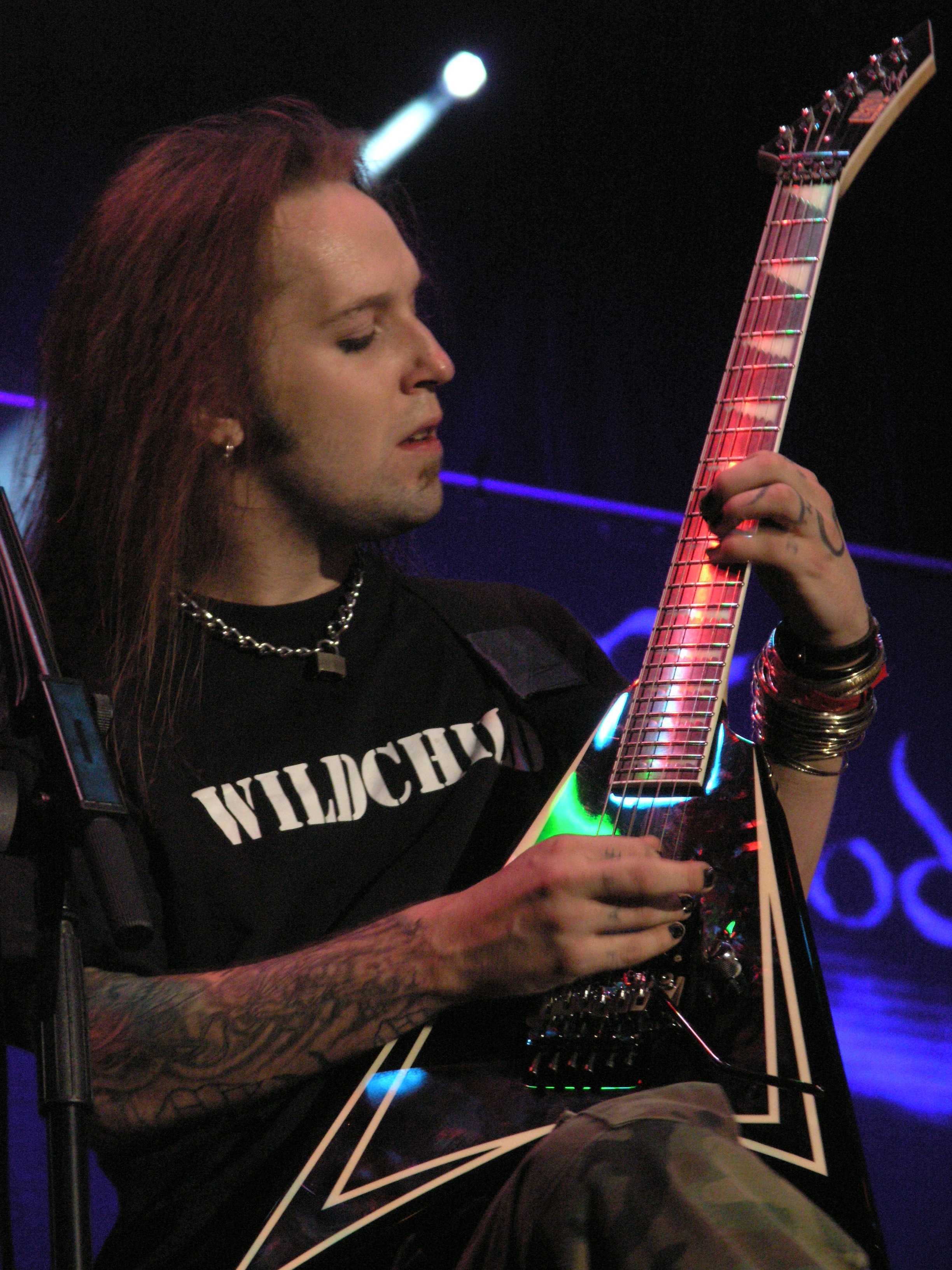 Alexi Laiho from Children of Bodom during Masters of Rock 2007 festival